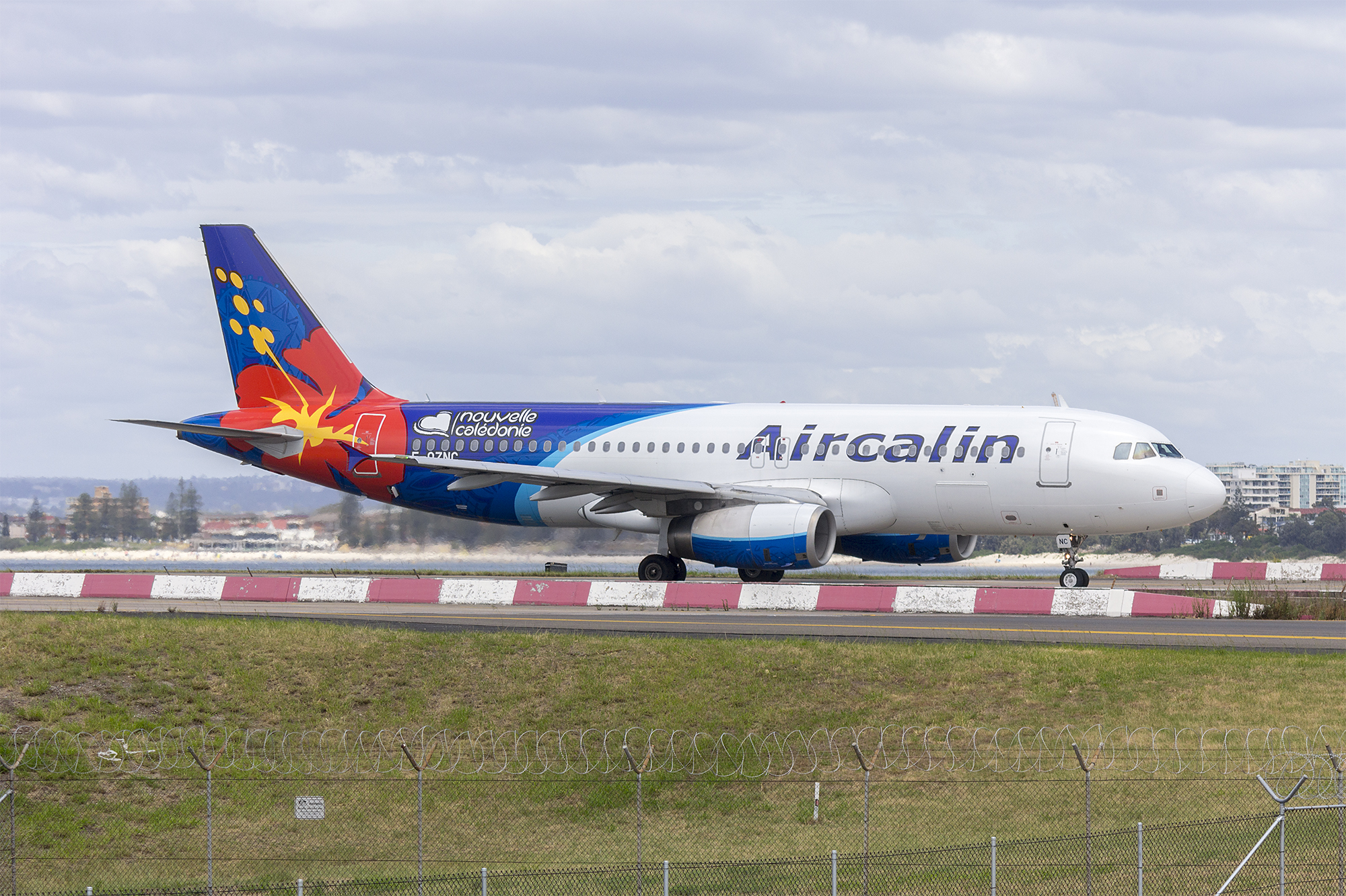 Aircalin (F-OZNC) Airbus A320-232 arriving at Sydney Airport.